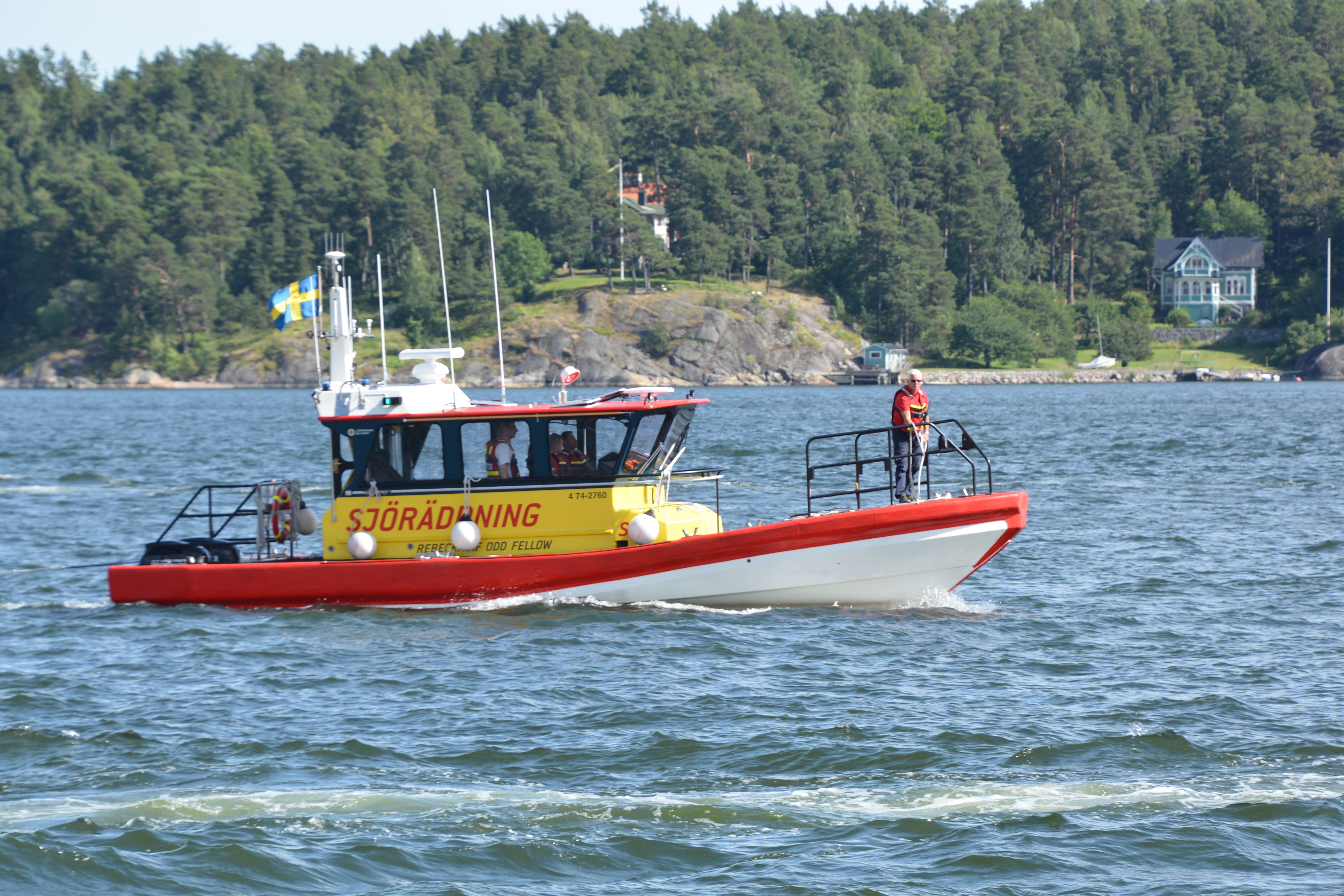 Rescue Rebecka af Odd Fellow, outside Vaxholm, Sweden